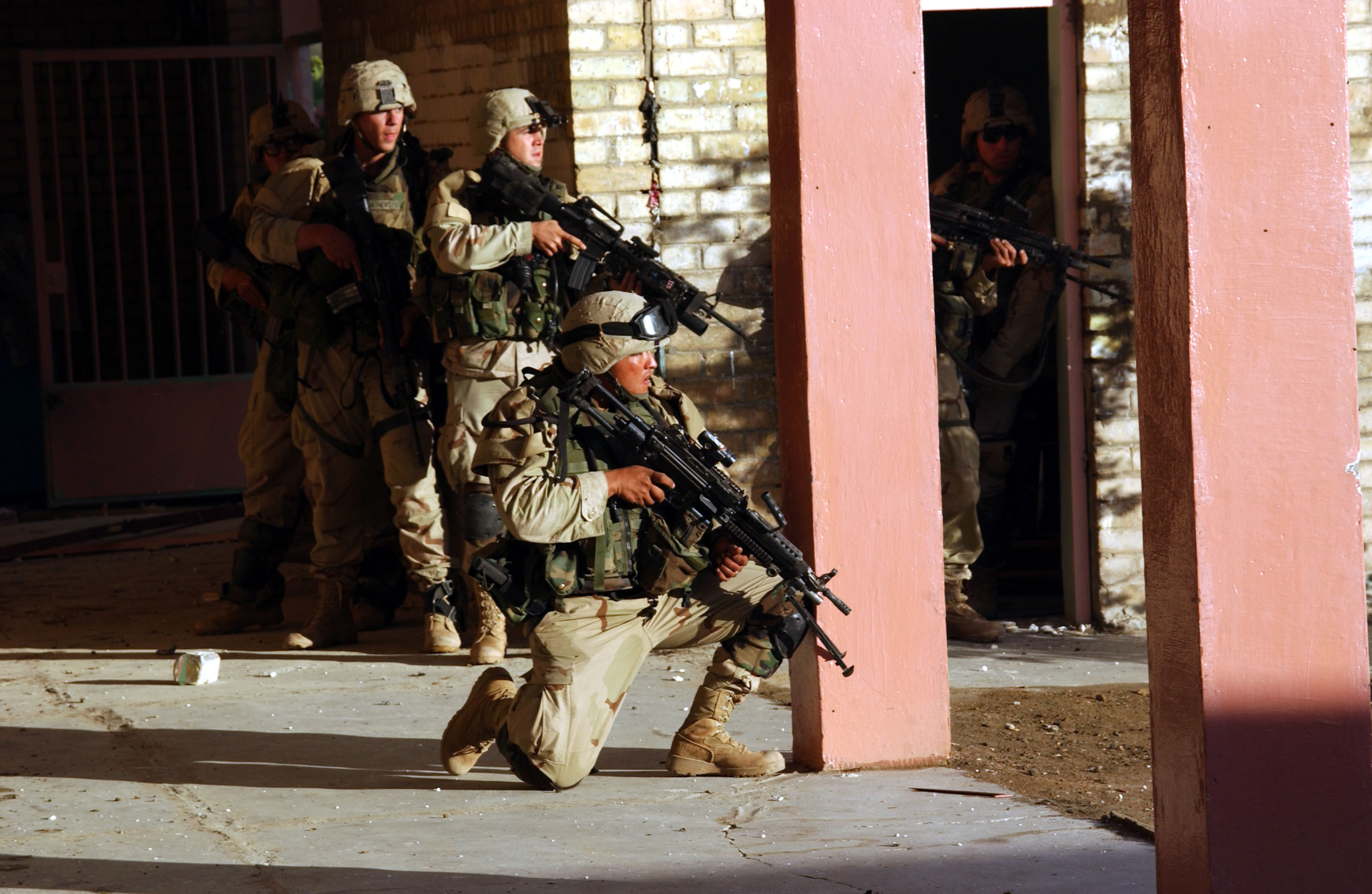 U.S. Army soldiers use a wall and a pillar as a shield while they tactically enter and clear a building in Fallujah, Iraq, during Operation al Fajr (New Dawn) on Nov. 9, 2004. The soldiers are assigned to 2nd Battalion, 5th Cavalry Regiment, 2nd Brigade Combat Team, 1st Cavalry Division.